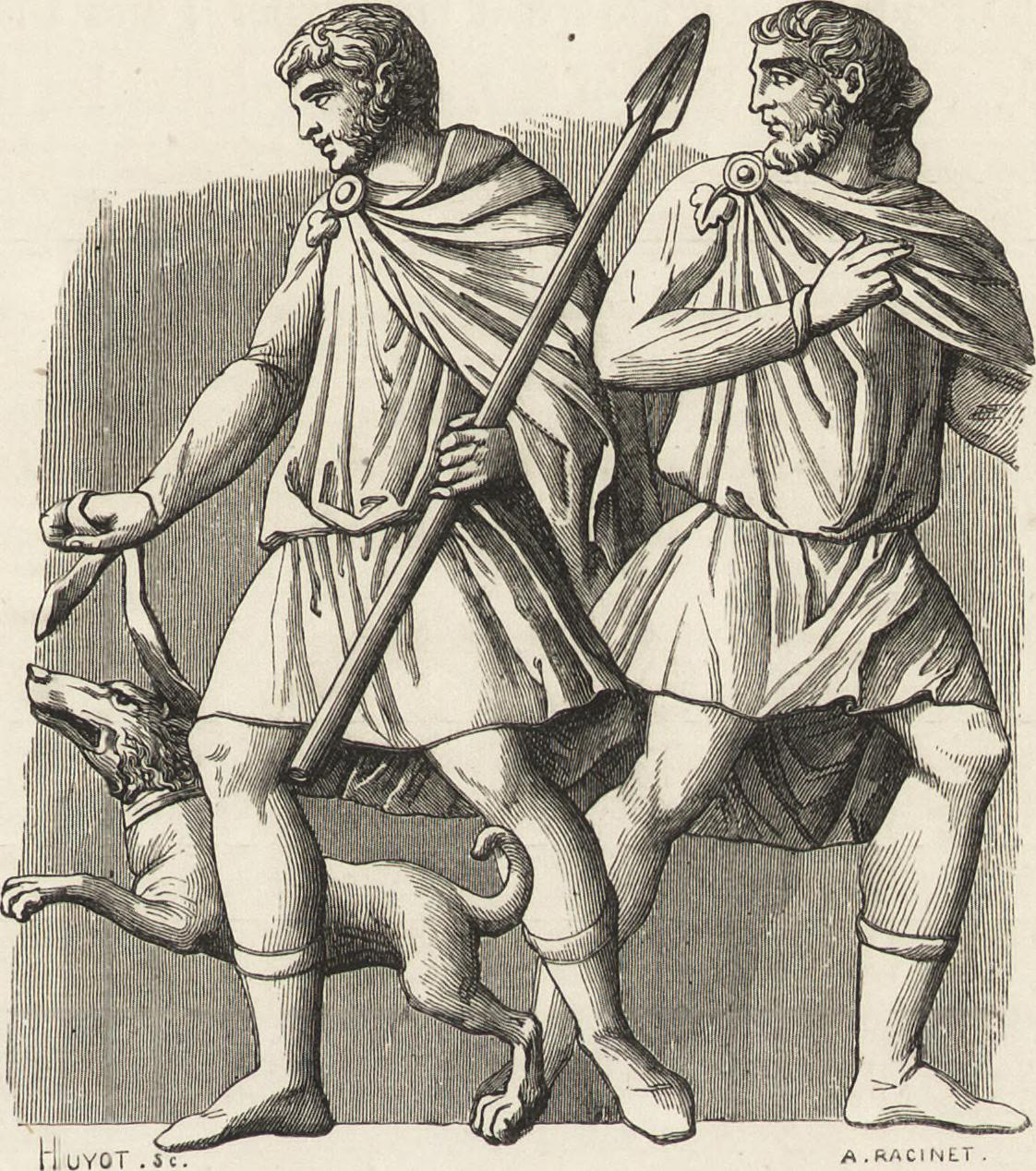 Gallo-Roman Lords of the Fourth Century.—Sculpture from the Tomb of the Gallic Consul Jovinus, General under the Emperor Julian, at Rheims